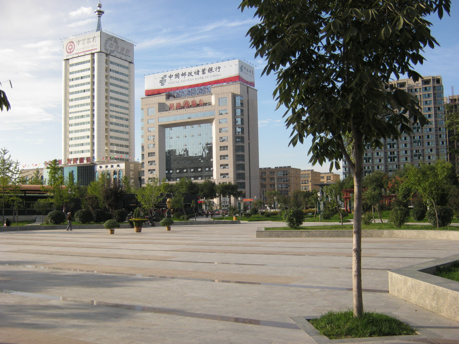 WeiNan